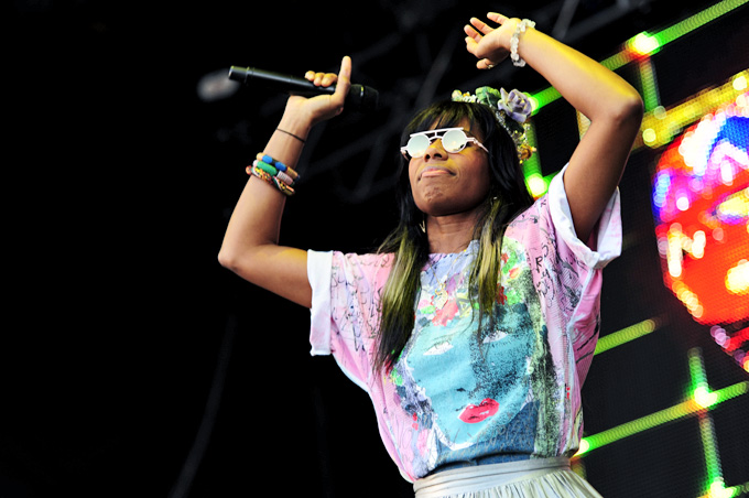 Parklife Festival 2011